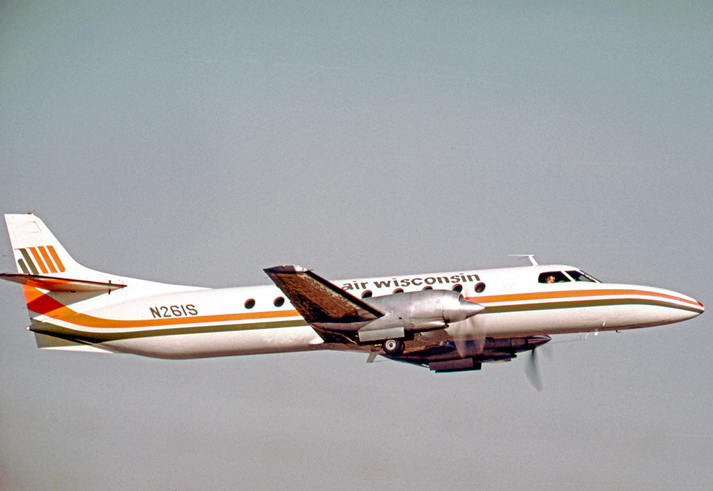 Fairchild Swearingen SA-226TC Metro N261S departing from Chicago O'Hare in 1973.